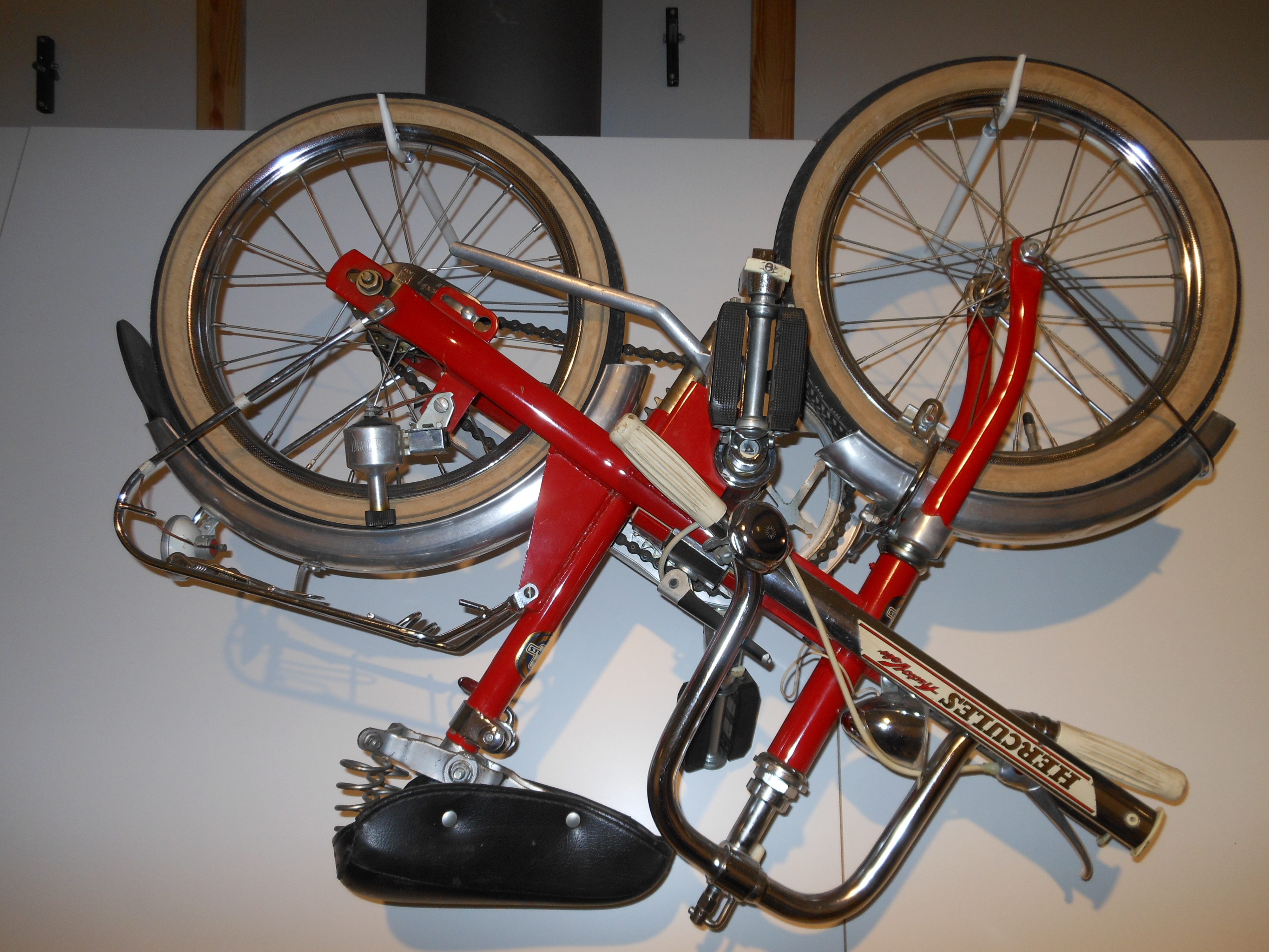 Folding bicycle from 1973.